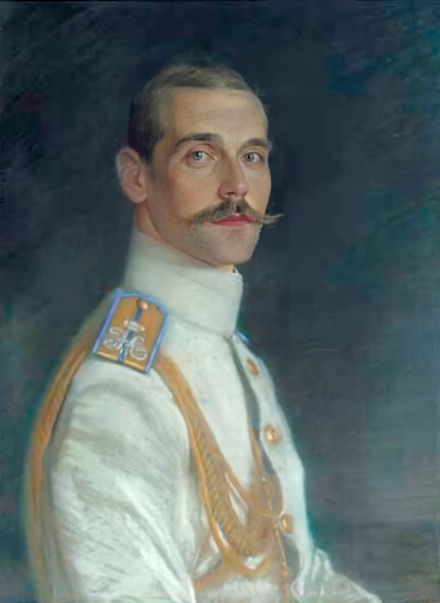 Russian School, early 20th Century Portrait of Grand Duke Mikhail Alexandrovich Romanov, bust-length in dress uniform pastel 27½ x 20in. (69.8 x 50.8cm.)